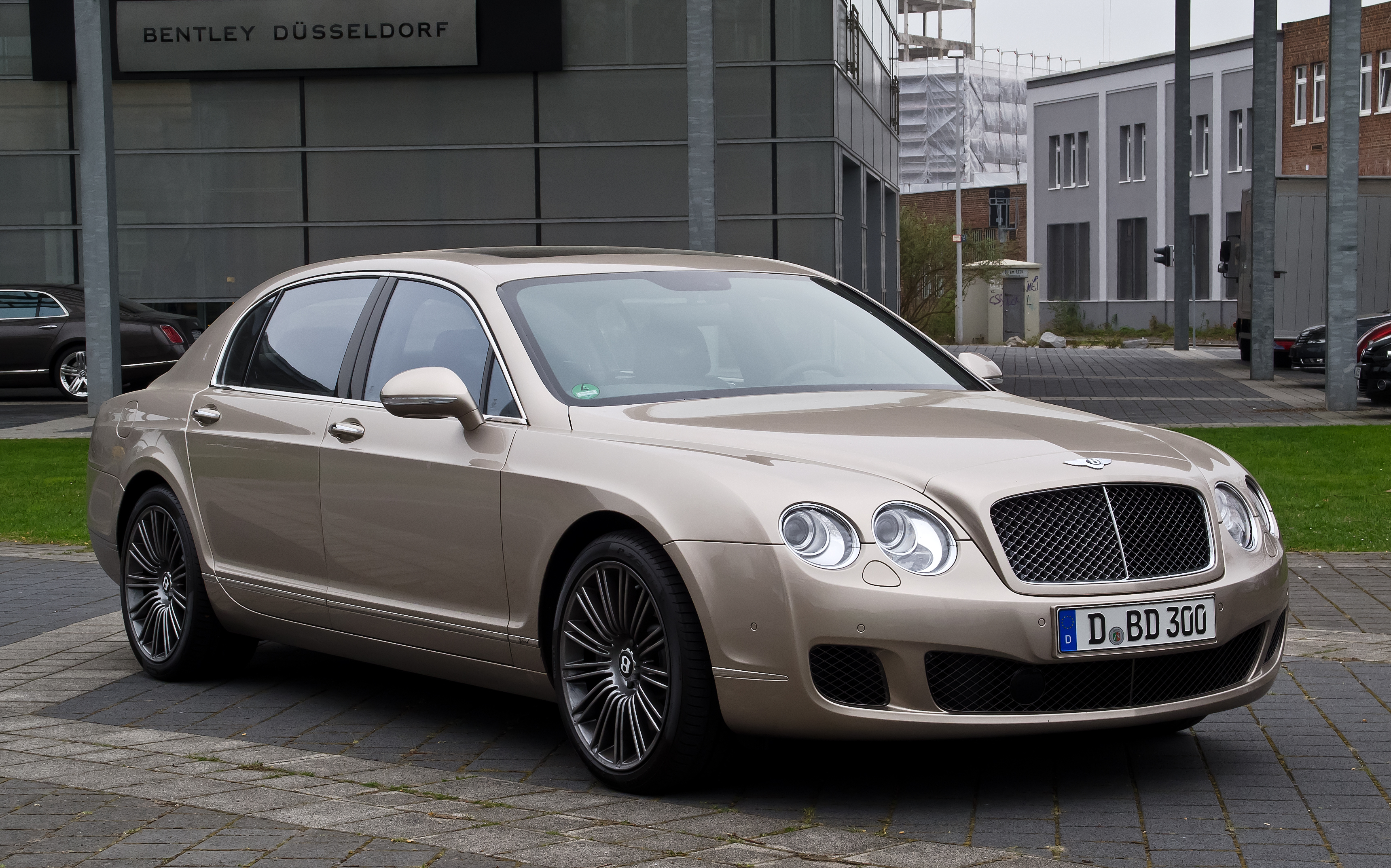 Bentley Continental Flying Spur Speed